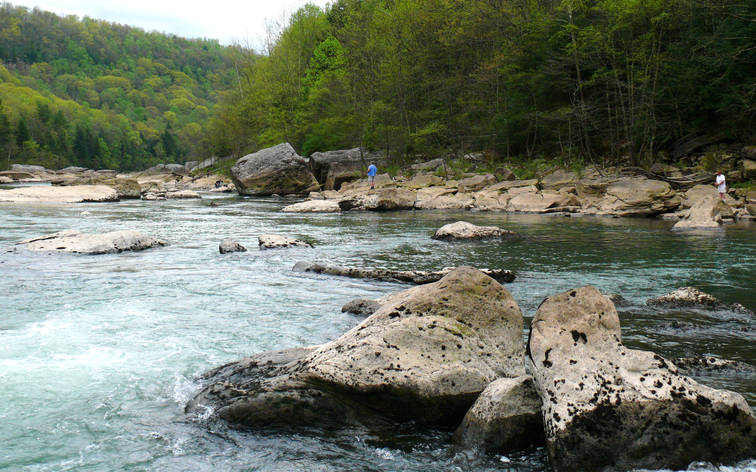 Anglers fish for rainbow and brown trout on the Gauley River, near the tailwaters of the Summersville Dam. Photo taken with a Panasonic Lumix DMC-FZ50 in Nicholas County, WV, USA.